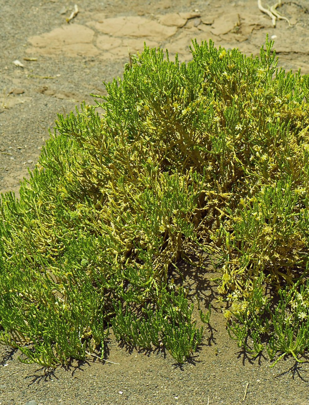 Parastrephia quadrangularis